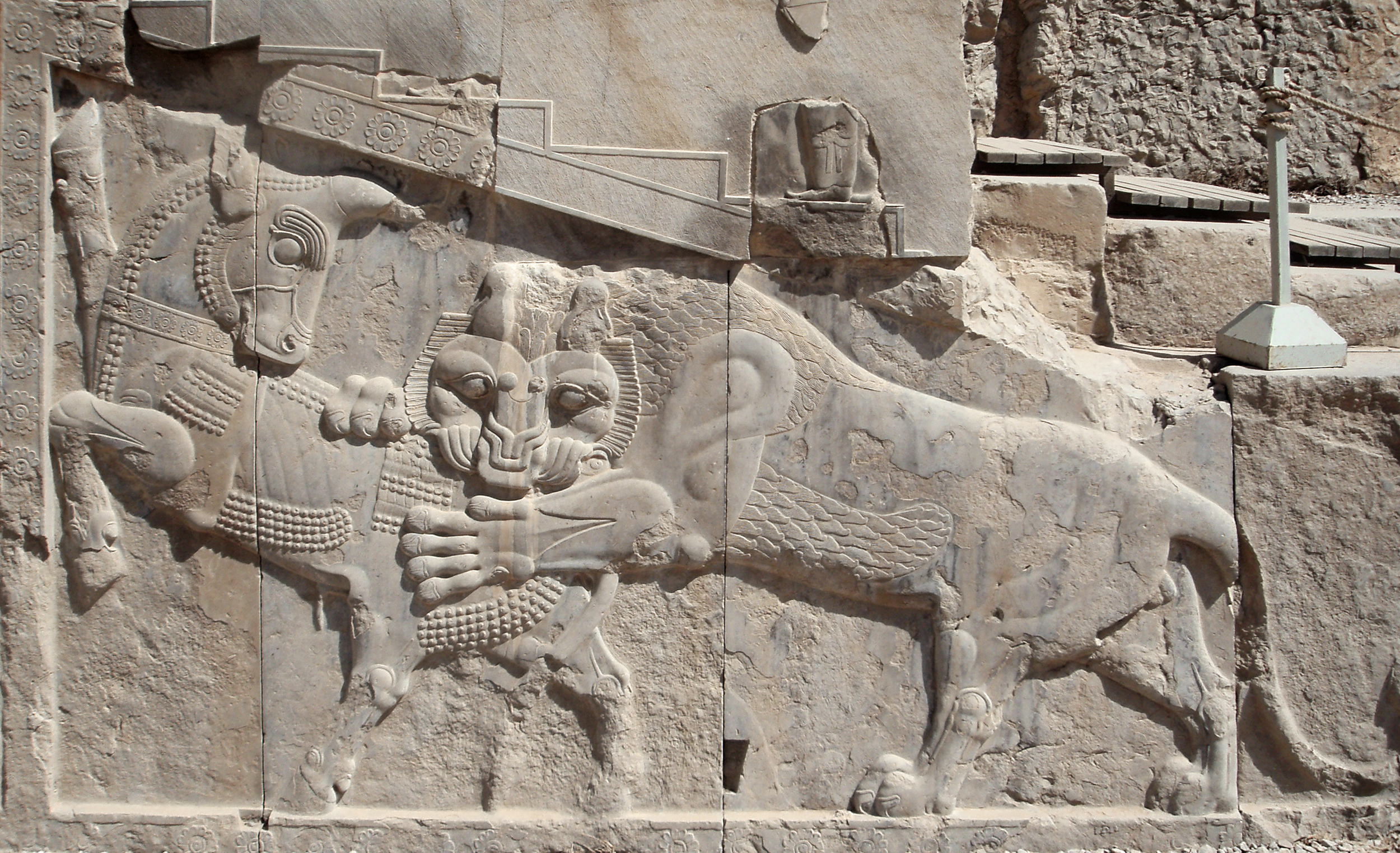 Bas-relief in Persepolis - a symbol Zoroastrian Nowruz - in day of a spring equinox power of eternally fighting bull (personifying the Earth), and a lion (personifying the Sun), are equal.